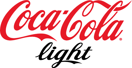 Logo of Coca-Cola Light, the European Diet Coke.